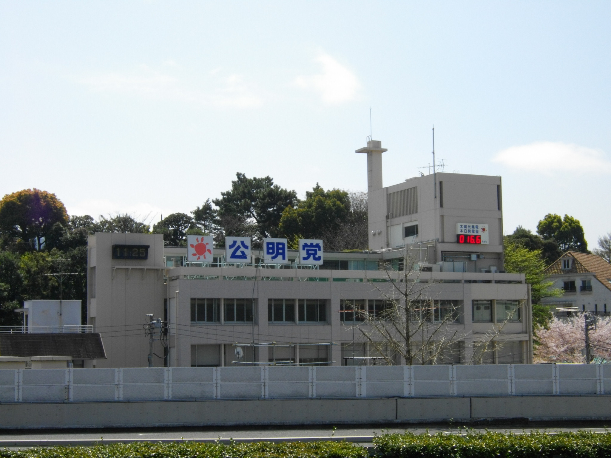 New Komeito Party Headquaters